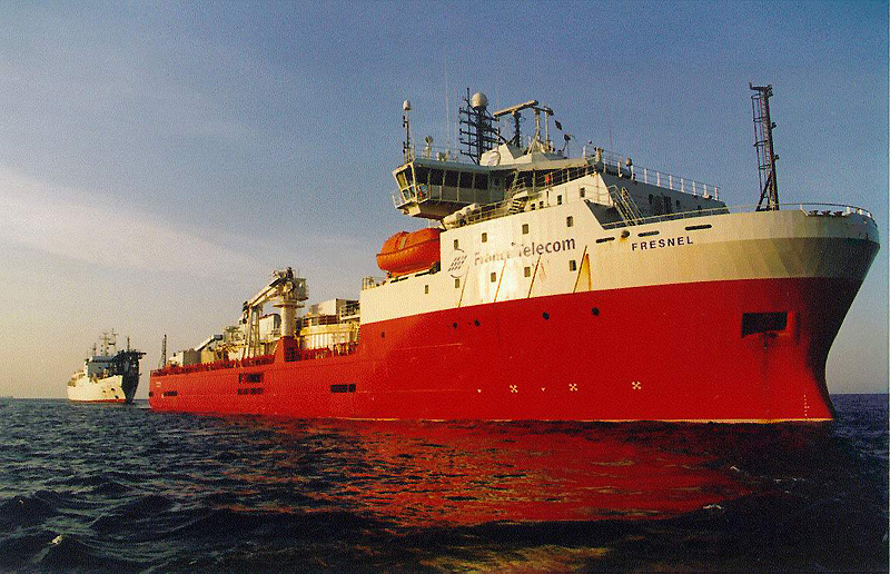 The french cableship "Fresnel" in Gibraltar strait 08/1998.